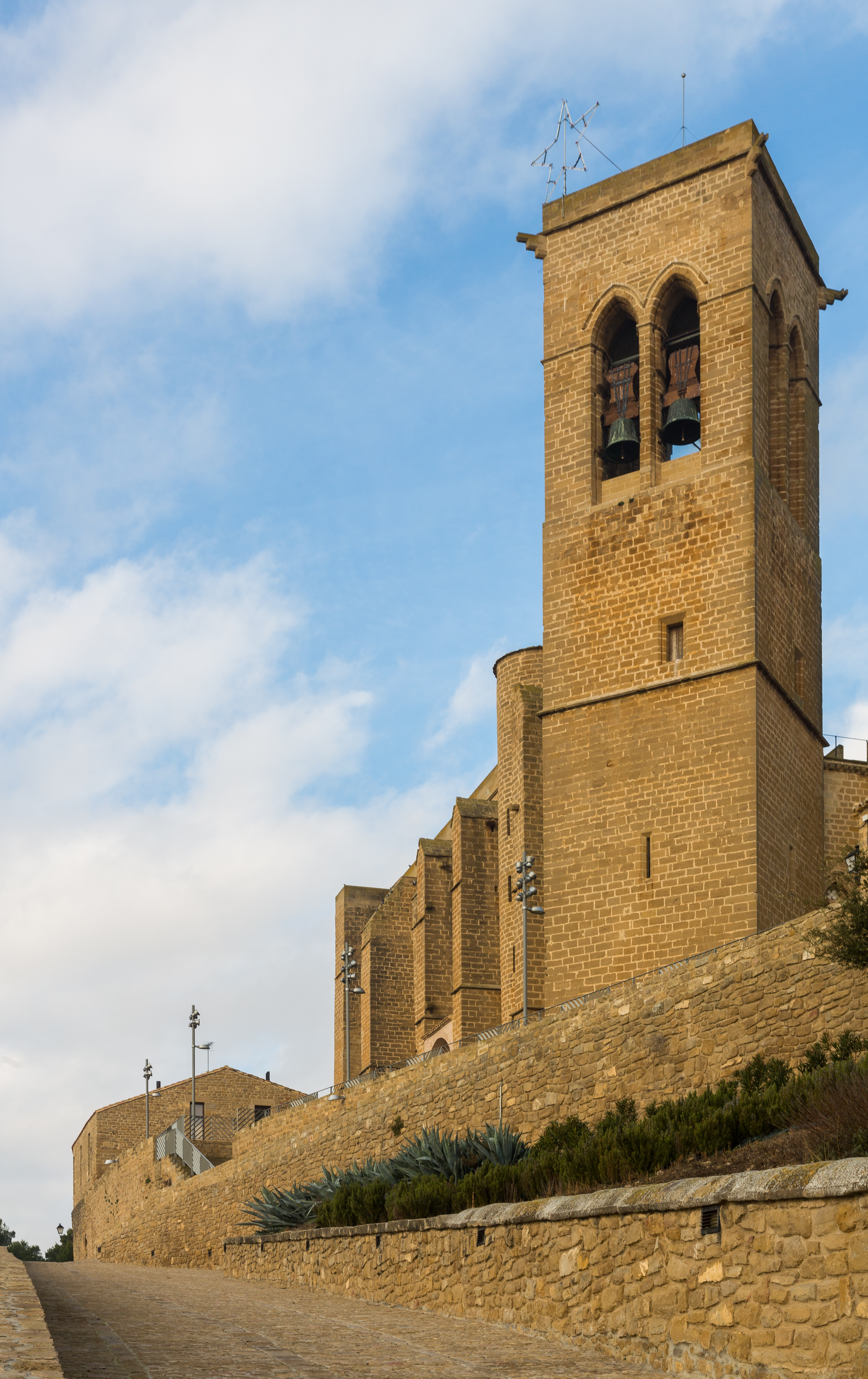 Fortified church of San Saturio, Cerco de Artajona, Navarre, Spain